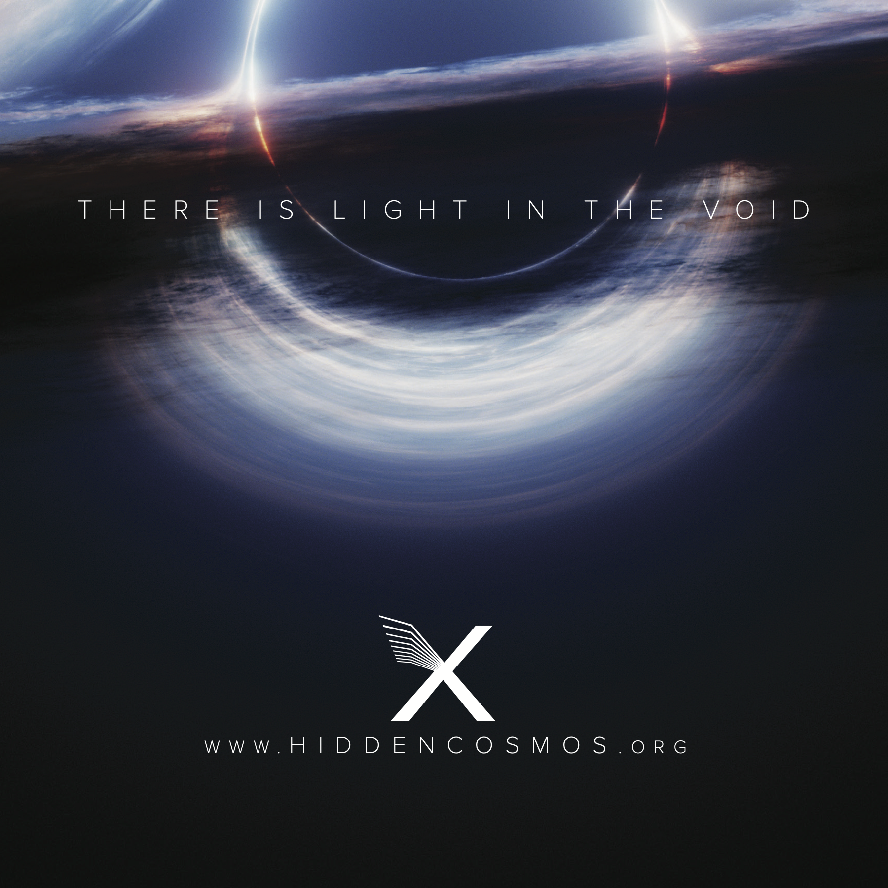 Example of public outreach and marketing materials used to promote Lynx